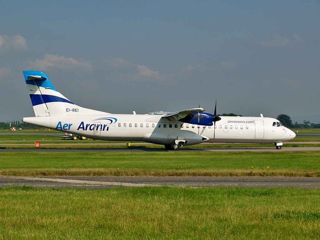 Aer Arann (formerly Cimber Air, originally Binter Canarias) EI-REI, an ATR 72-201 taxies to take off from runway 05 left at Manchester Airport. Monday 28th July 2008